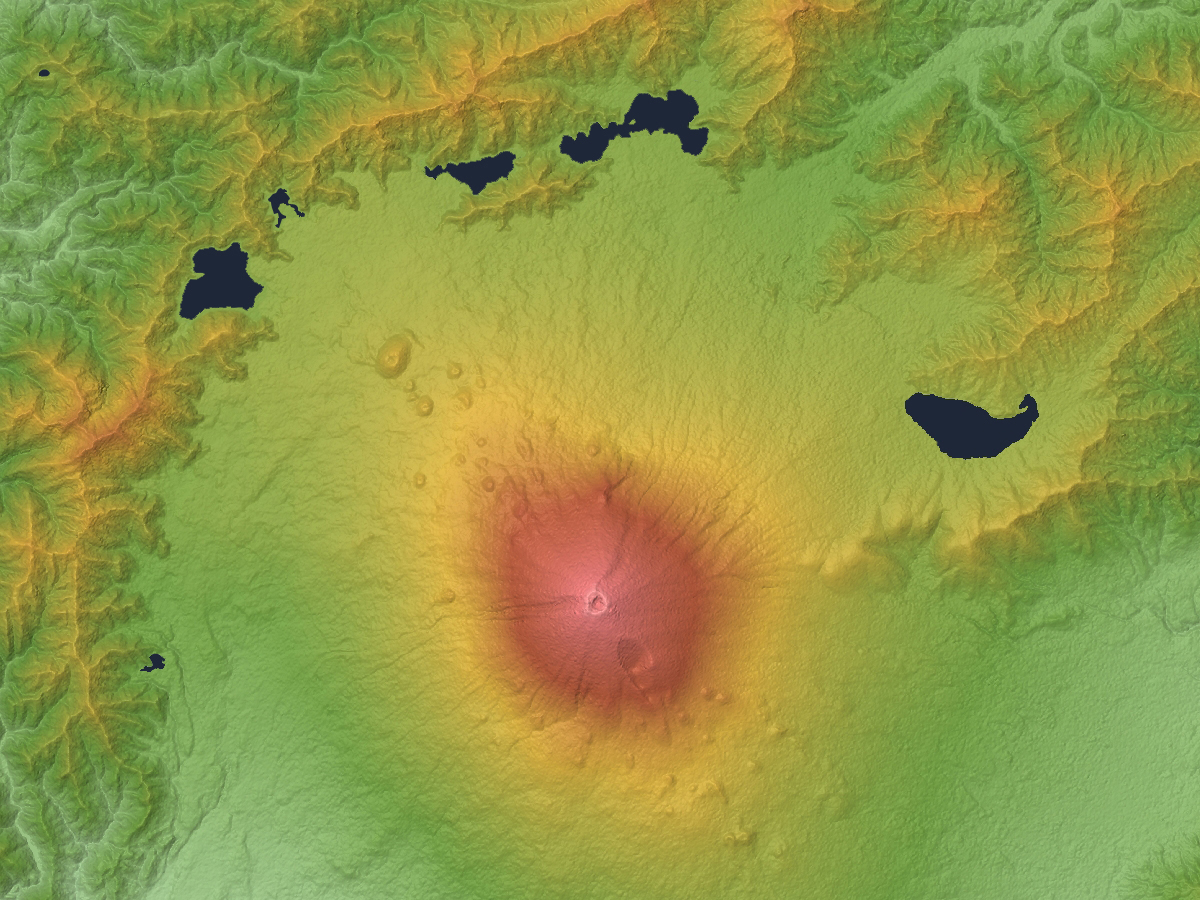 Mount Fuji and Fuji Five Lakes in Yamanasi Prefecture, Honshu, Japan.